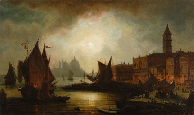 "Venedig bei Mondlicht: Blick vom mit Segelbooten belebten Bacino di S. Marco auf Molo rechts und S. Maria della Salute links", by Tobias Andreae (1823 - 1873). 1867, oil on canvas. 87.5 x 146 cm. Private collection.